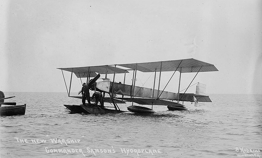 "The New "Warship" - Commander Samson's hydroplane".